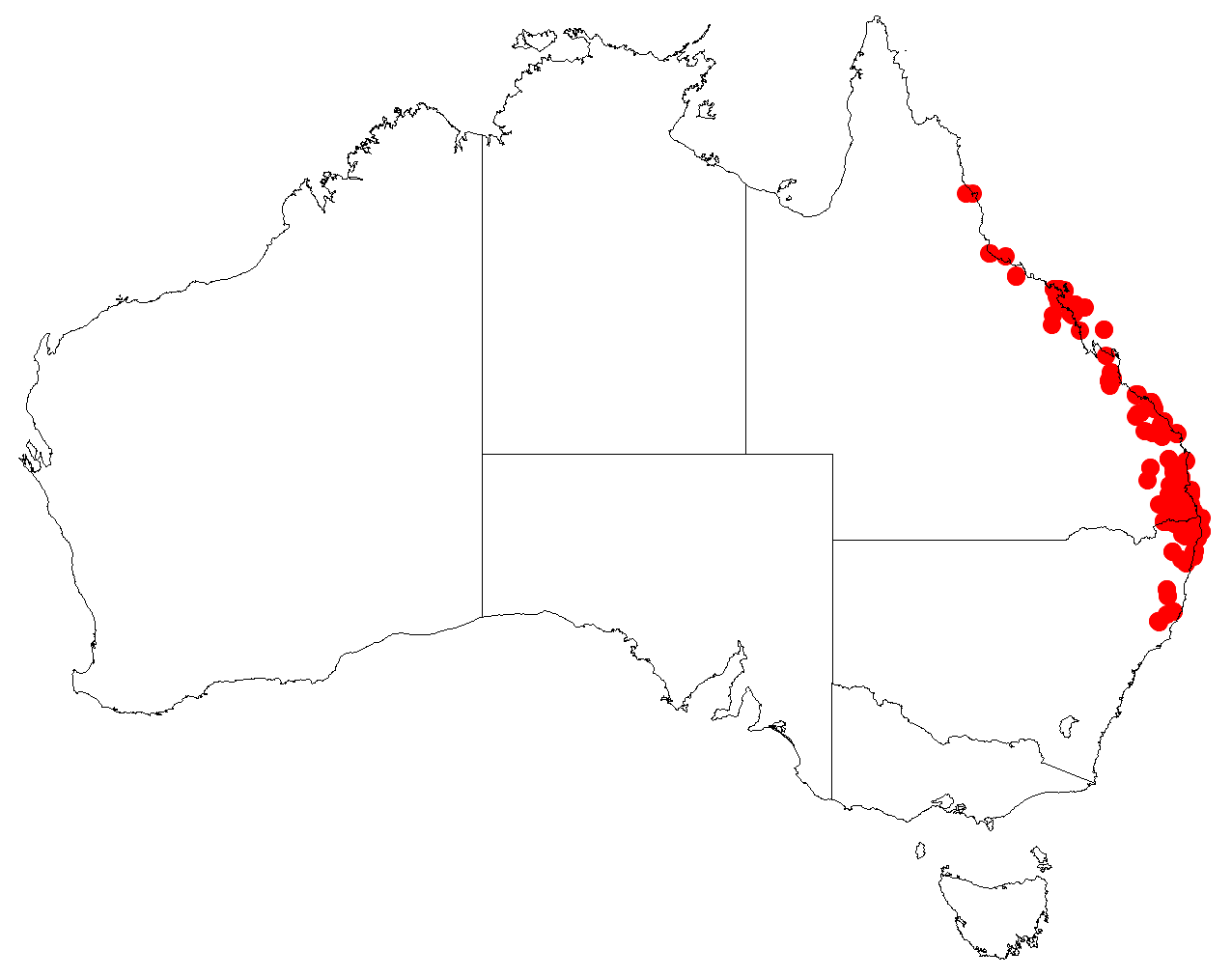 Harpullia hillii occurrence data downloaded from the Australasian Virtual Herbarium 2020-05-25 using DOI